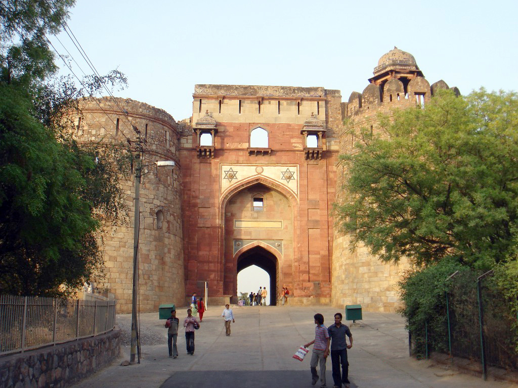 Picture taken by Kaiser Tufail during visit to Delhi, 29-4-08